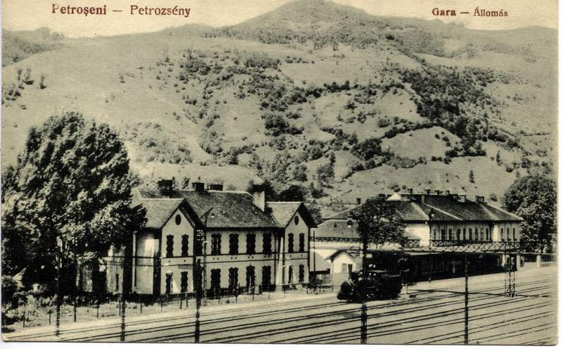 Petroșani rail station 1867